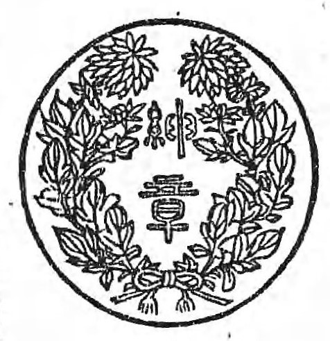 "Shinsho", the honour badge for Taiwanese people established in 1896 by Government-General of Taiwan.